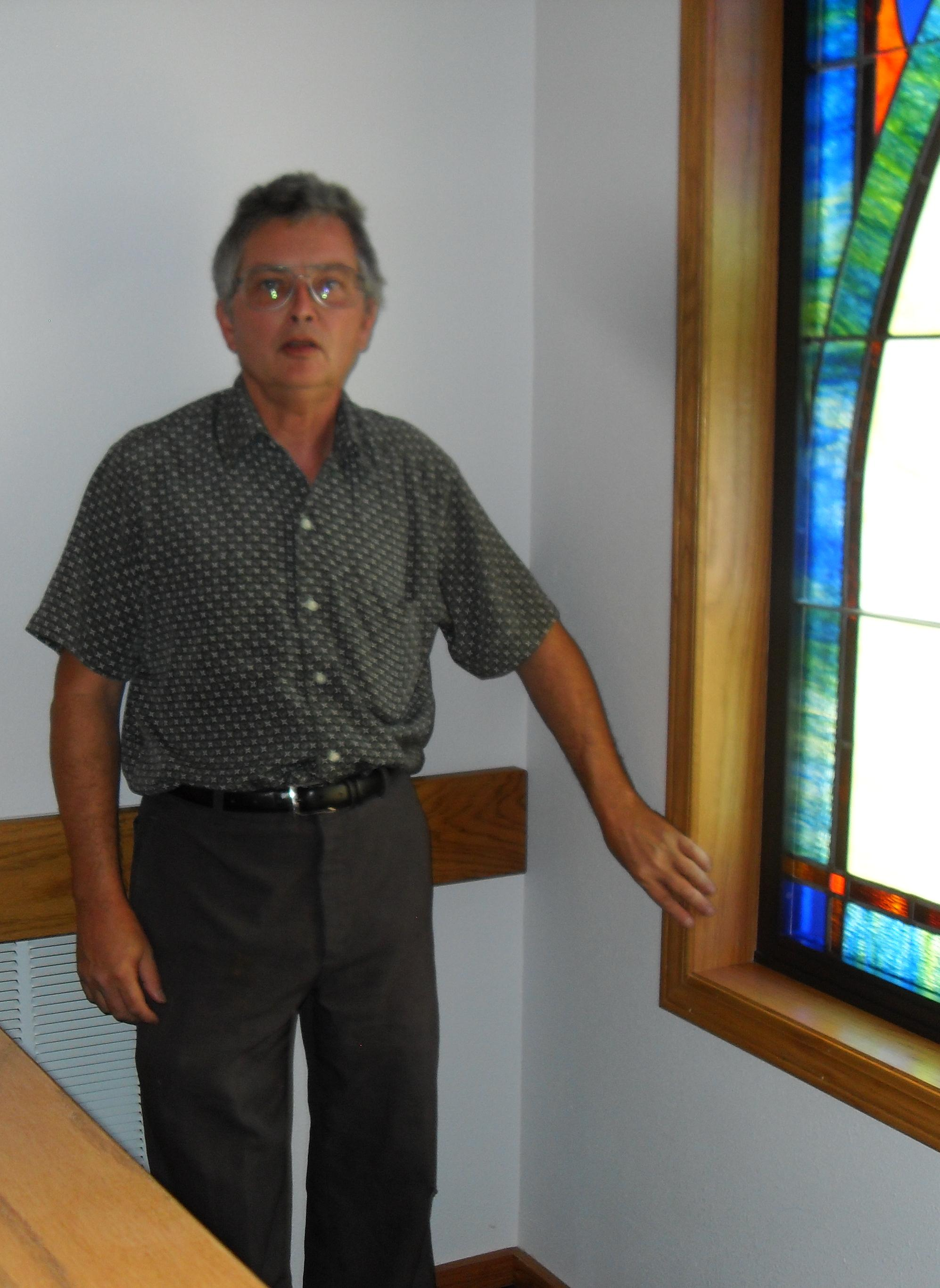 Youvan at Frontenac United Methodist Church. Photo for biography on wikipedia for editor bridgettttttte.